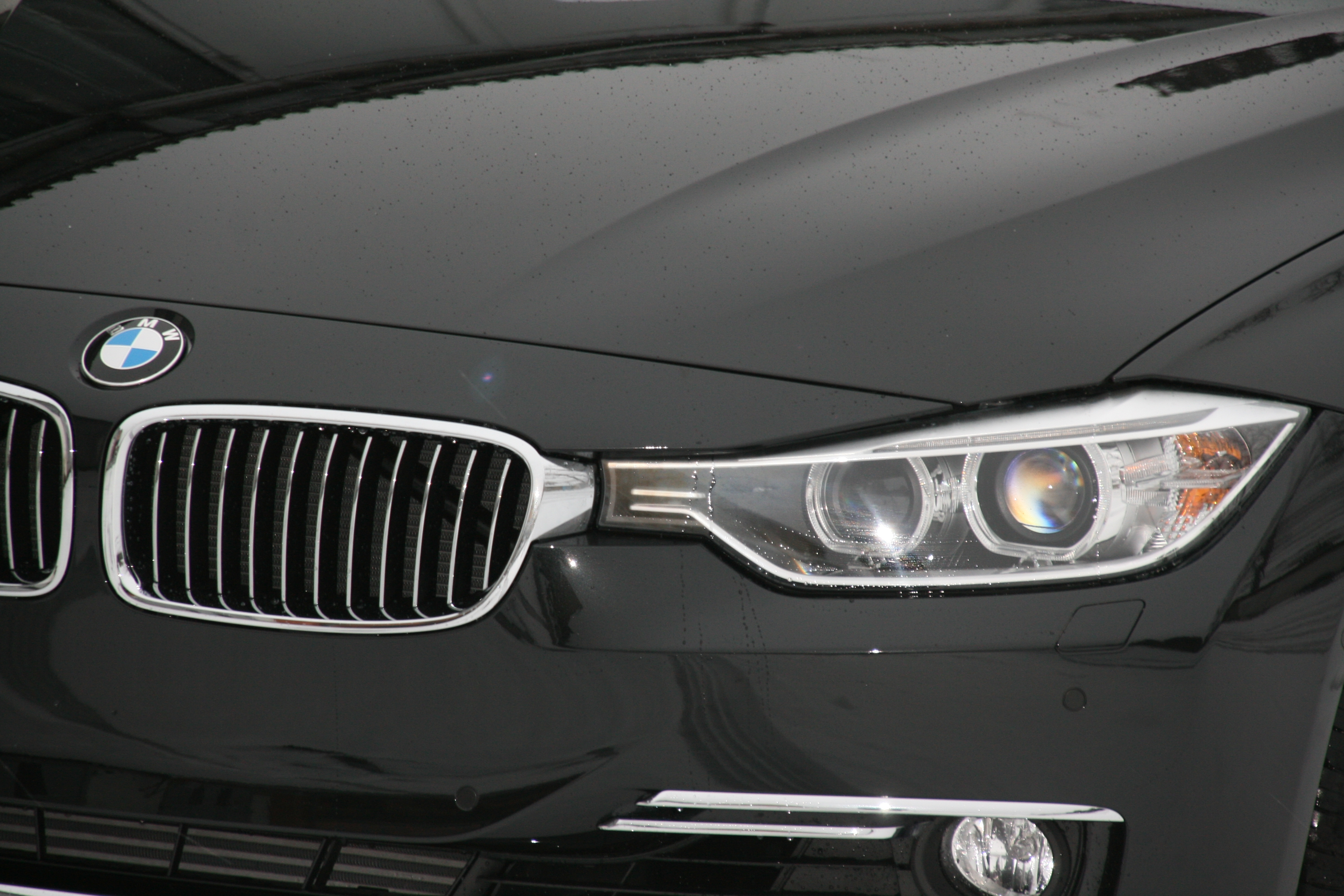 BMW 328i F30 2012 Headlight